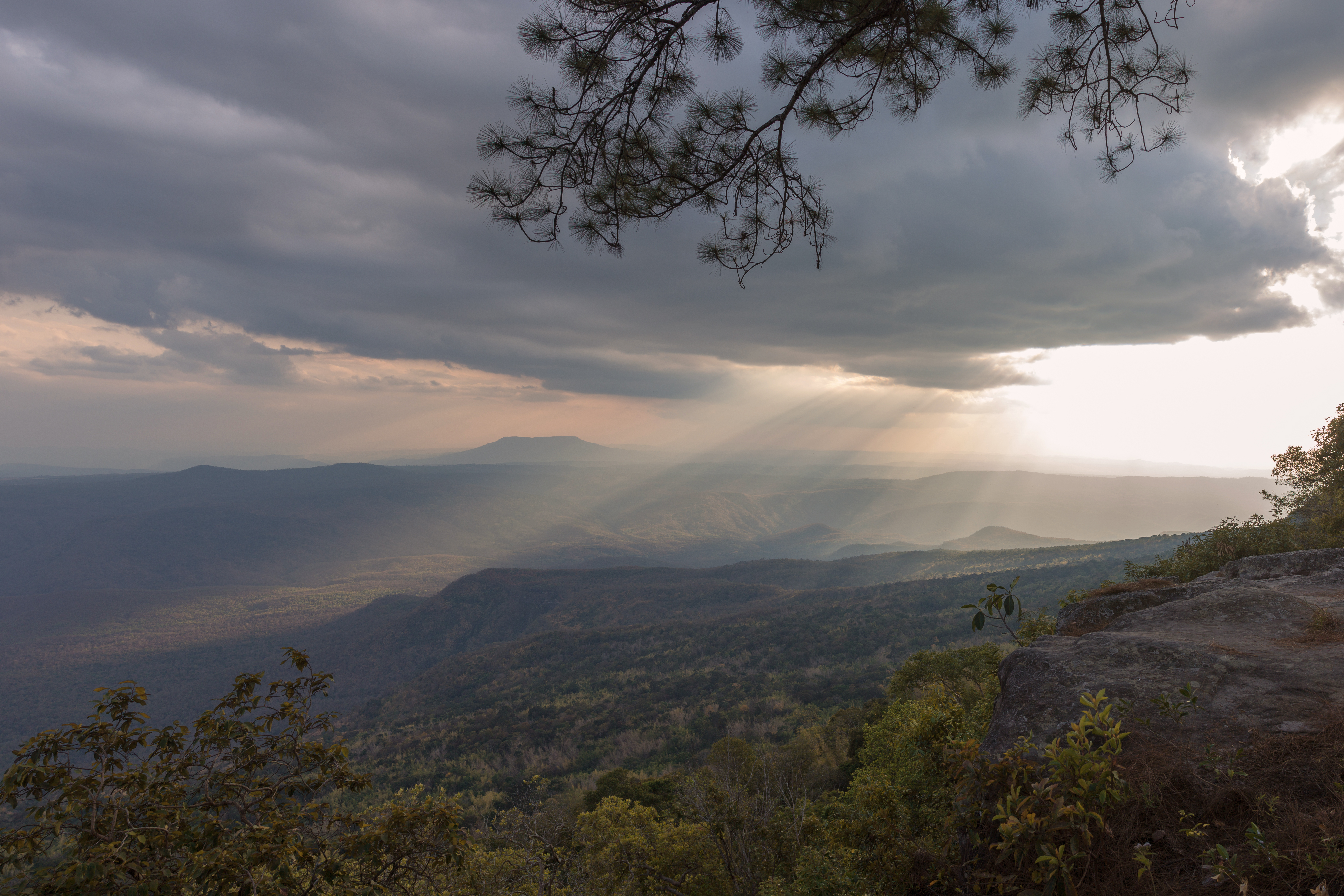 The view from Na Noi Cliff on Phu Kradueng Mountain in the Si Than sub-district of Amphoe Phu Kradueng, Loei Province.